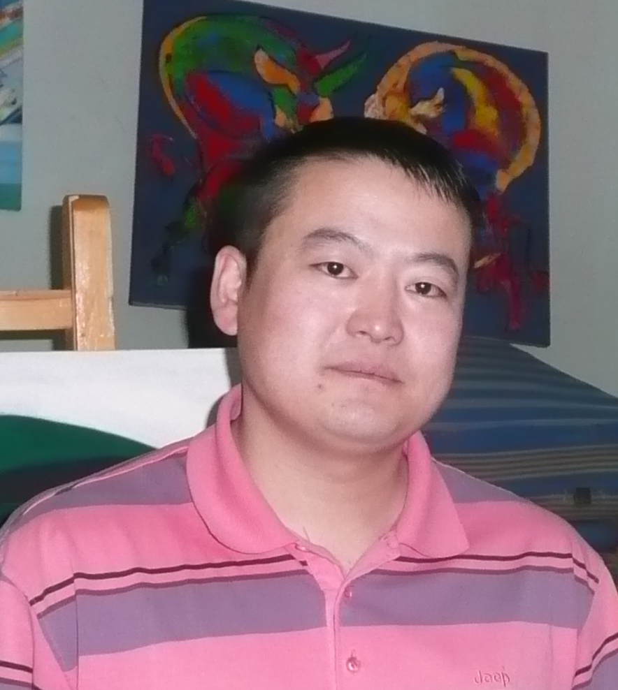 The Mongolian painter CHADRAABAL Adiyabazar in Ulan Bator